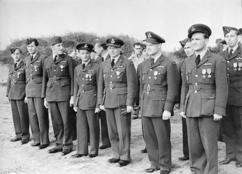 Royal Air Force Fighter Command, 1939-1945. Pilots of No. 310 (Czechoslovak) Squadron RAF lined up after being decorated by Dr Eduard Benes, the Czech President in exile, at Exeter, Devon, on the occasion of the second anniversary of the unit's commencement of operations in the United Kingdom.